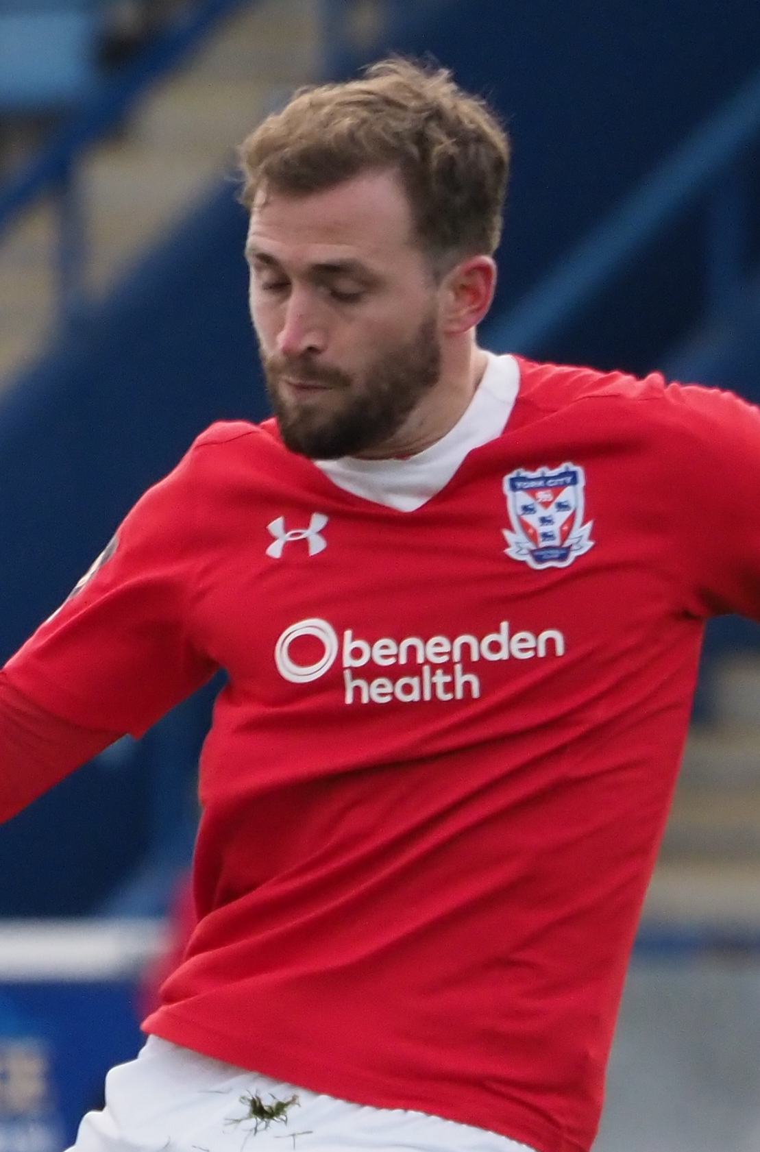 Josh Law playing for York City against AFC Telford United at the New Bucks Head, Telford on 27 October 2018